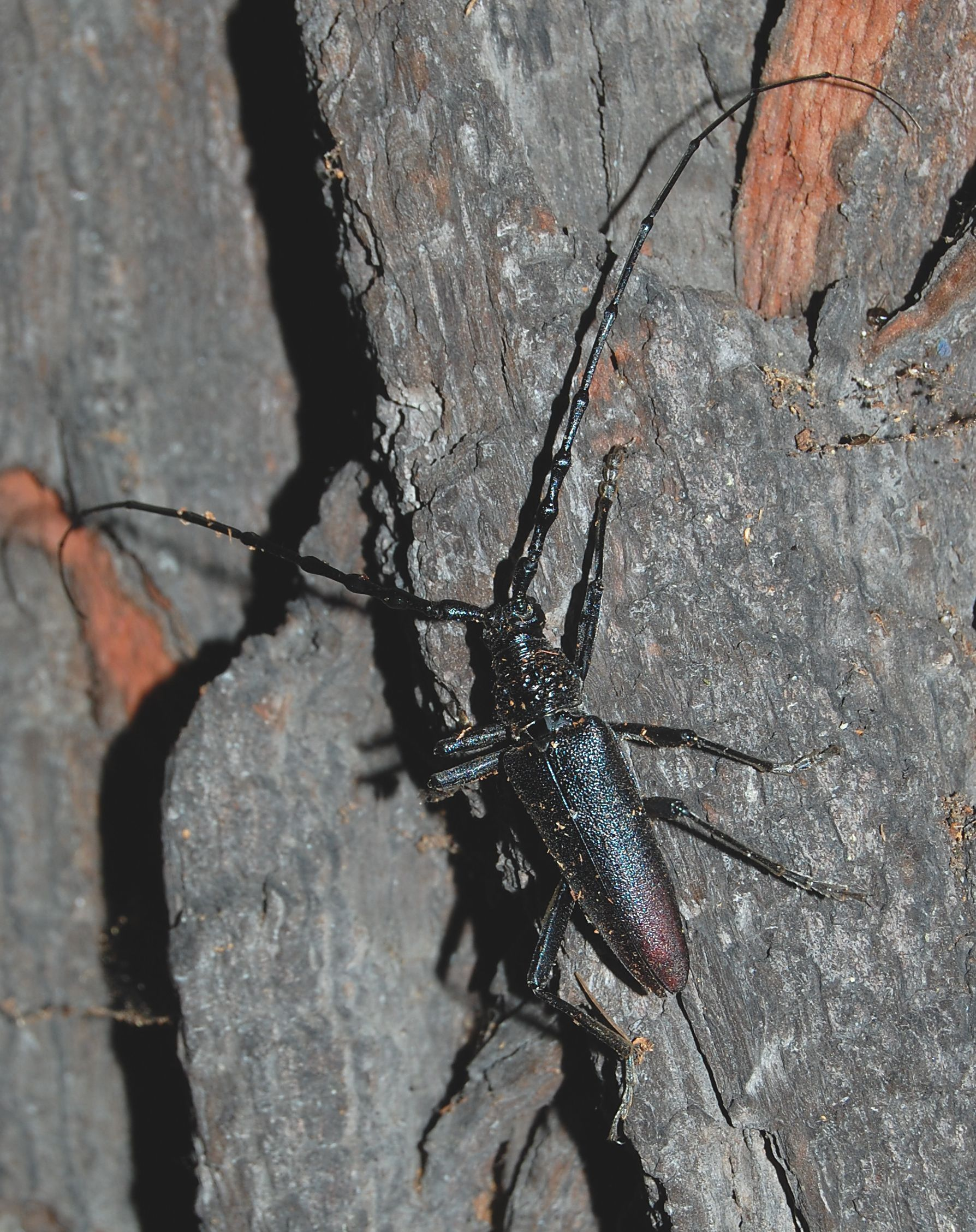 Cerambyx cerdo, male at night on old Oak. Berlin-Pankow